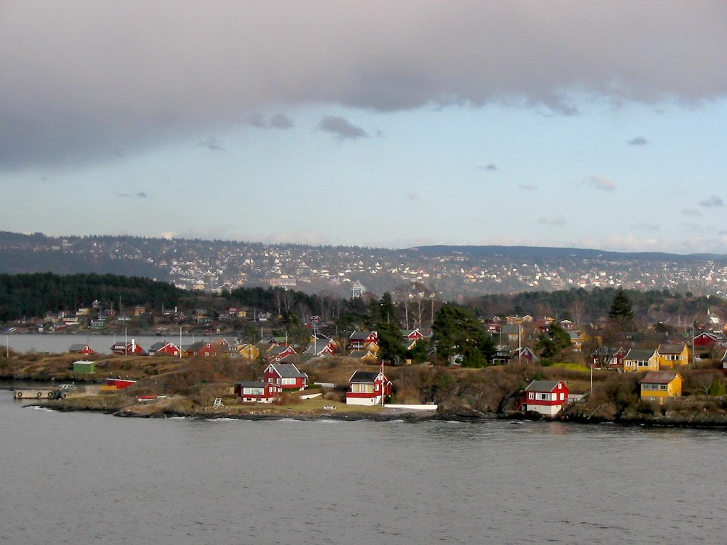 an island in the Oslo Fjord // Norway, 2005